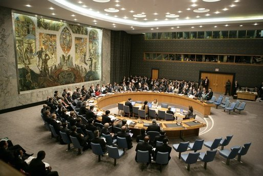 President George W. Bush and other world leaders meet during the Security Council Summit at the United Nations in New York Wednesday, Sept. 14, 2005.